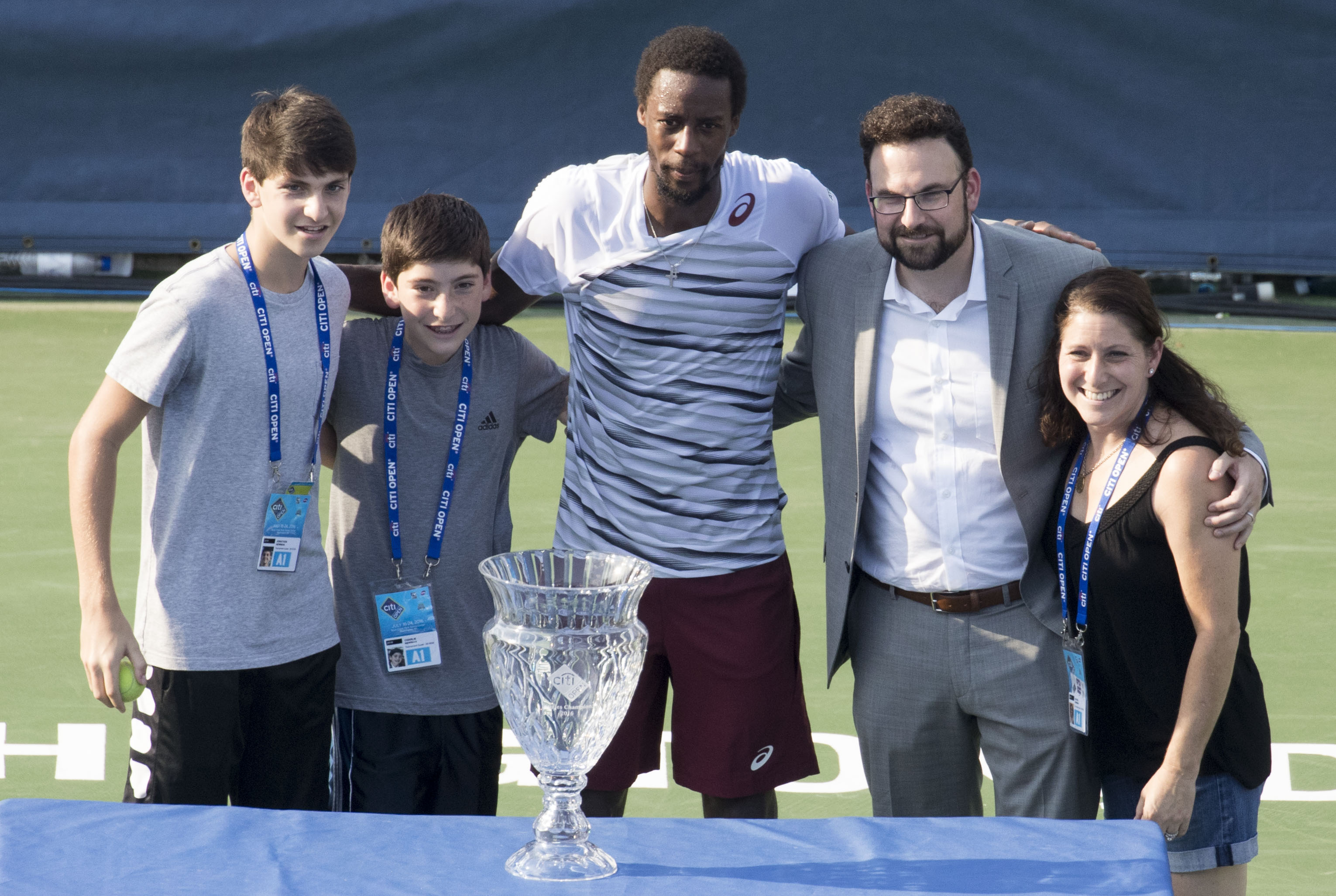 2016 Citi Open Finals 7/24/16